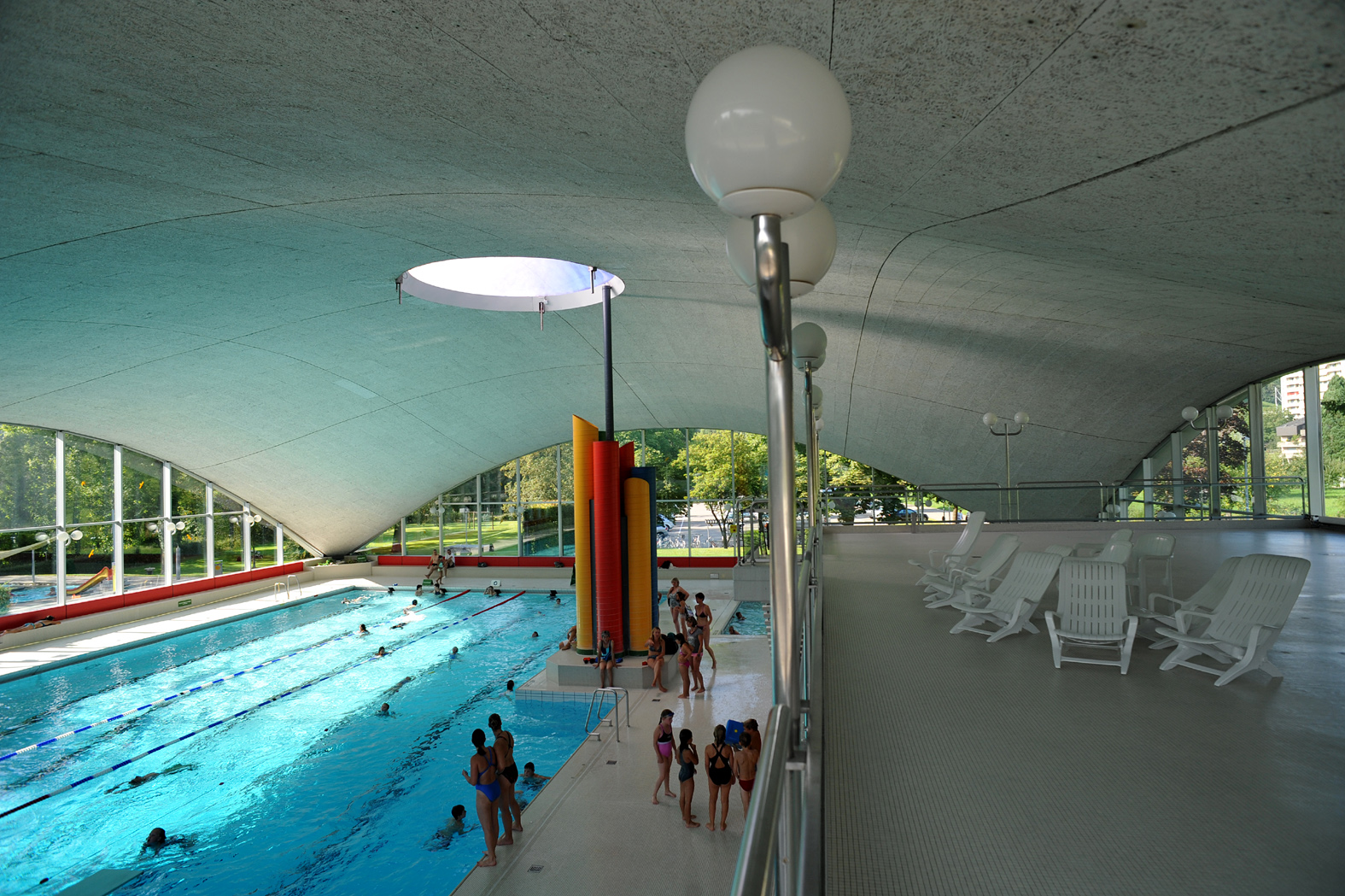 Concrete shell roof (Isler shell) of the indoor swimming pool in Brugg, built 1981; Aargau, Switzerland.